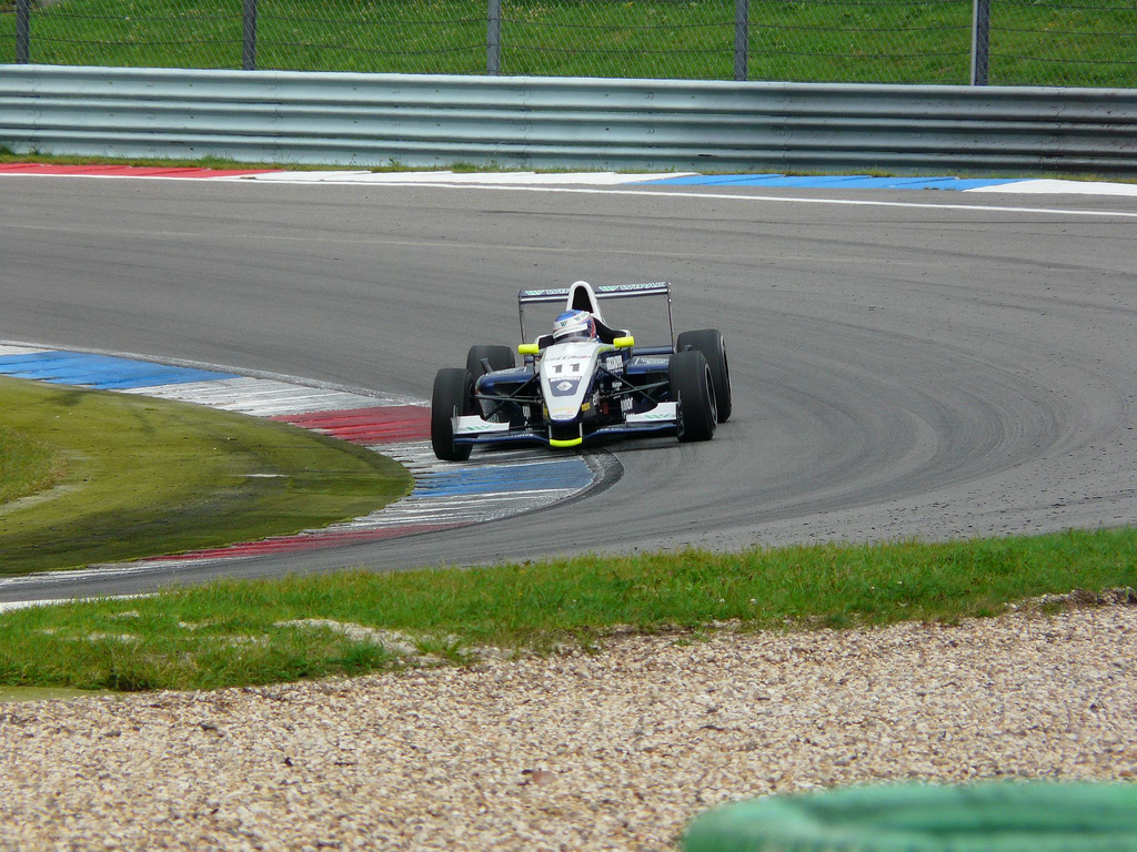 Finnish racing driver Valtteri Bottas in a NEC Formula Renault 2.0 race in 2008.